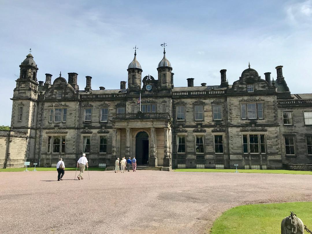 Photograph of Sandon Hall, Staffordshire,England